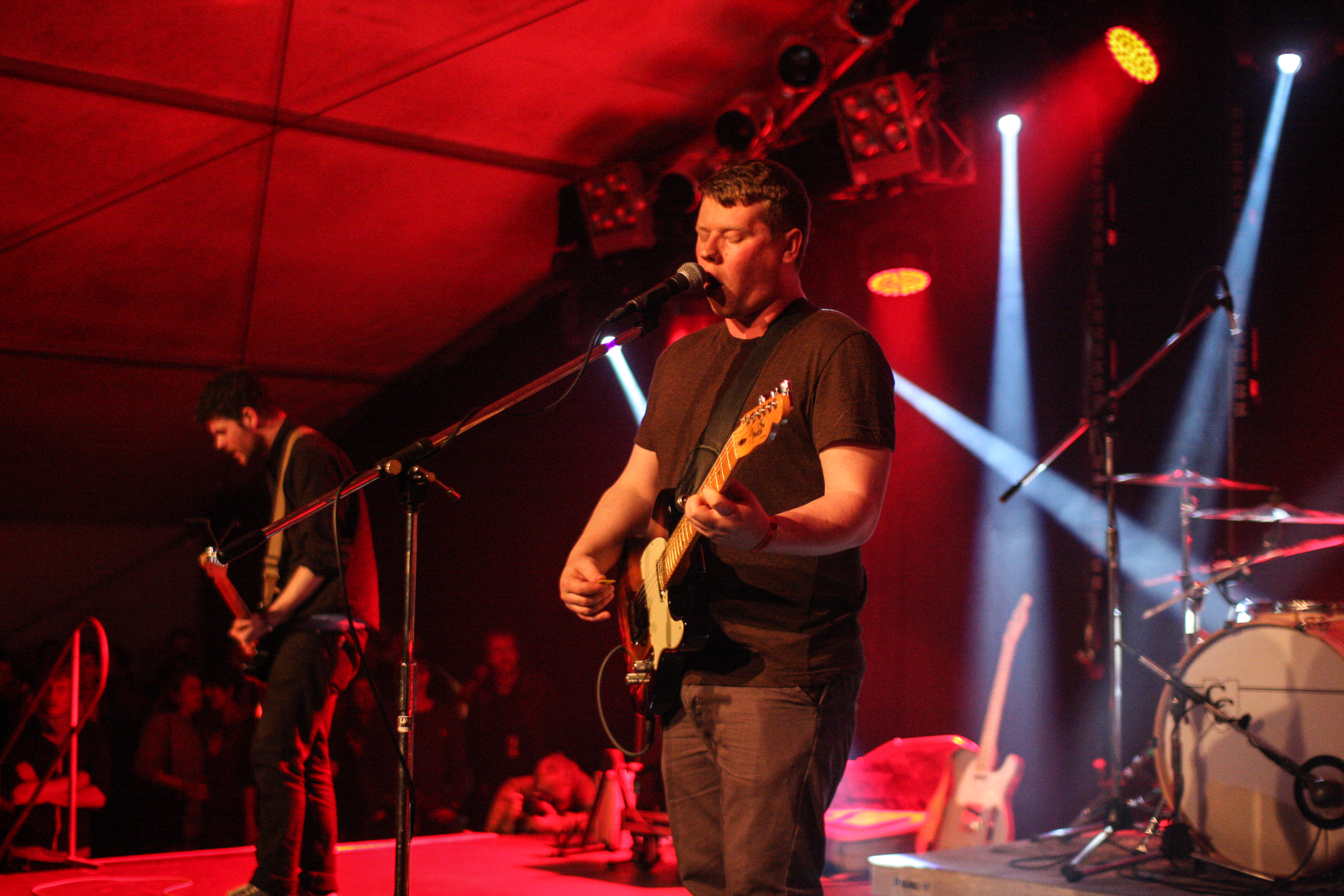 Festivalsommer This photo was created with the support of donations to Wikimedia Deutschland in the context of the CPB project "Festival Summer".